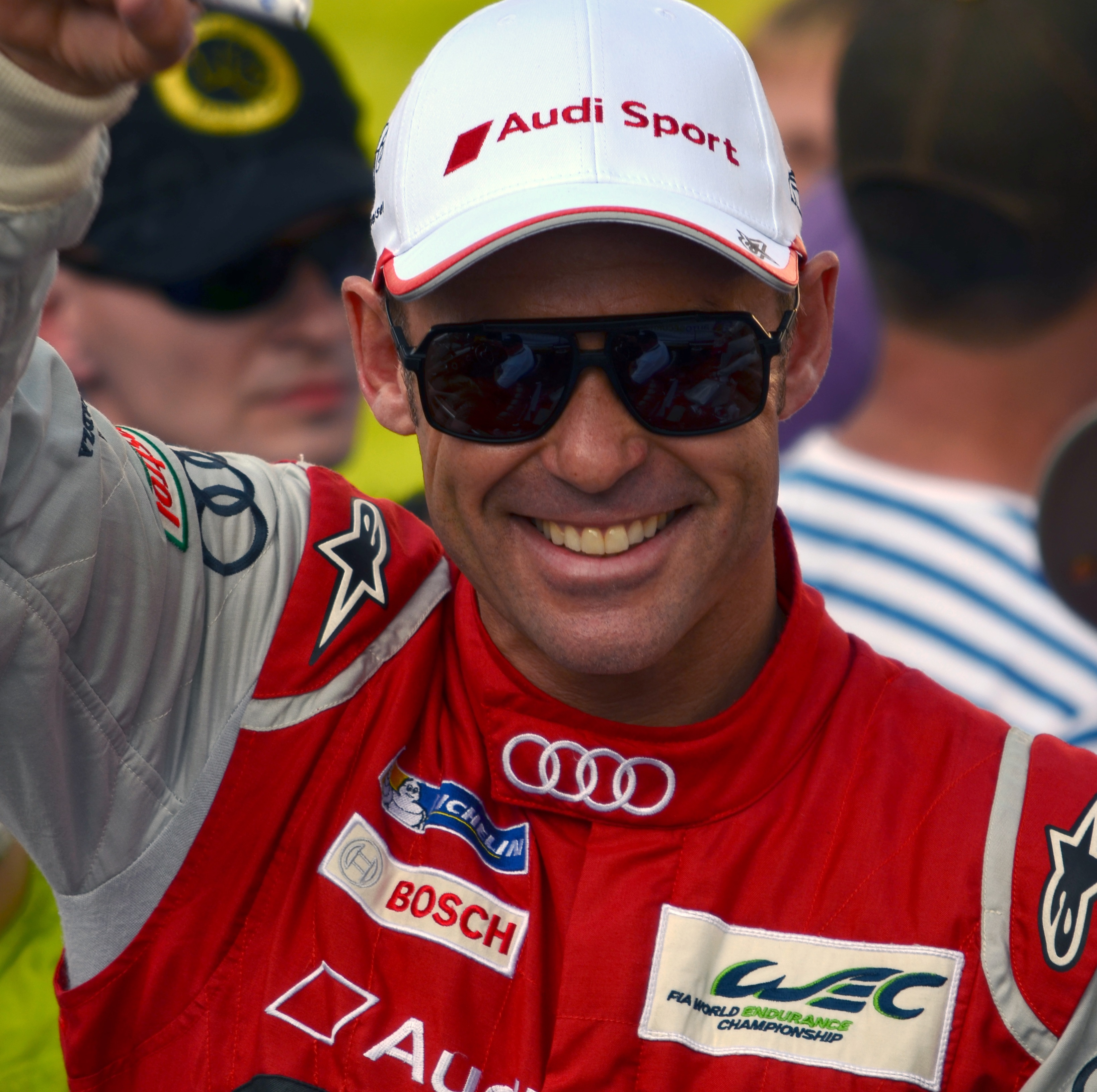 Danish race car driver Tom Kristensen at the 2014 24 Hours of Le Mans.